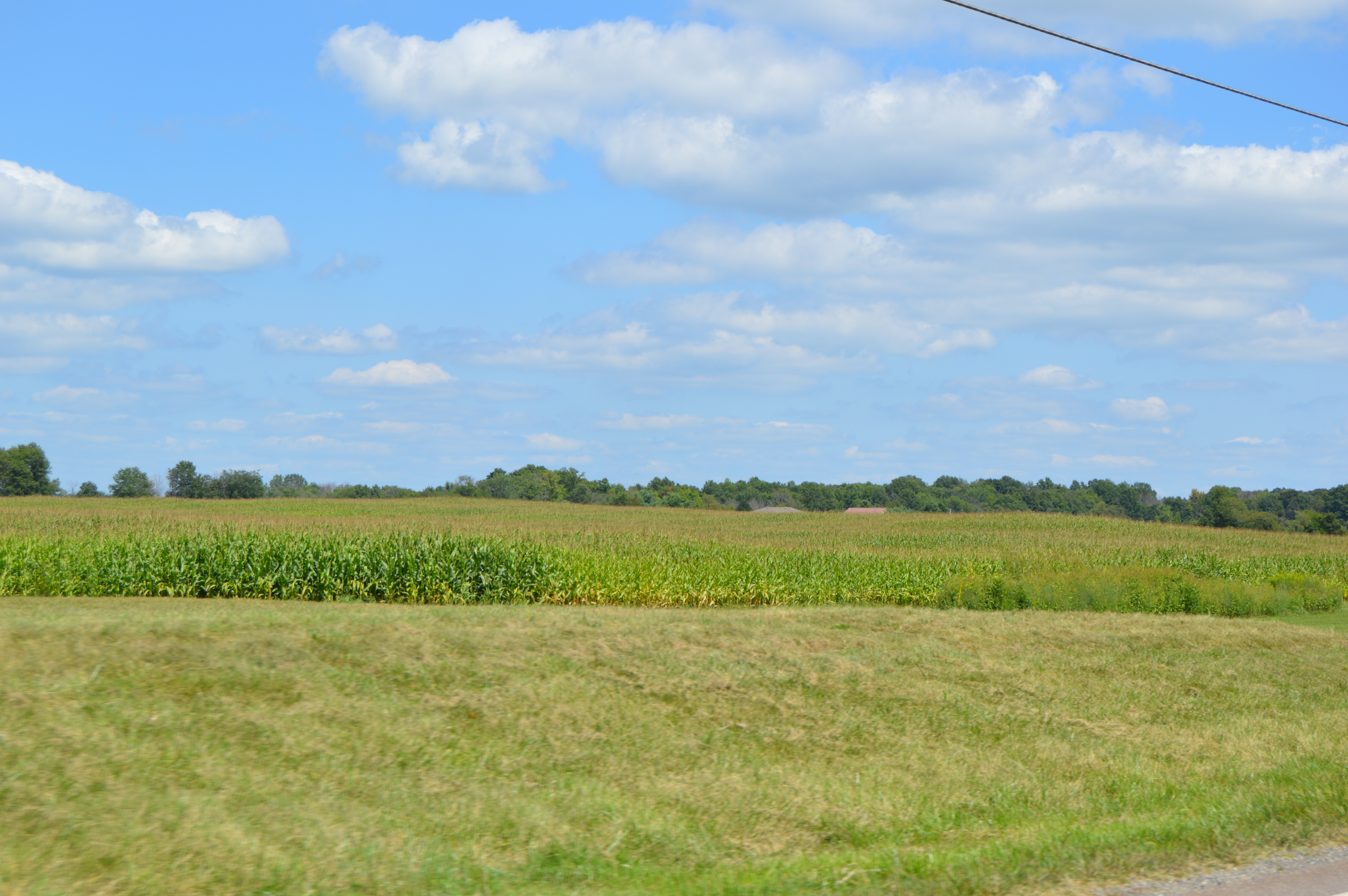 Fields on the northern side of State Route 229 east of Marengo in Bennington Township, Morrow County, Ohio, United States.